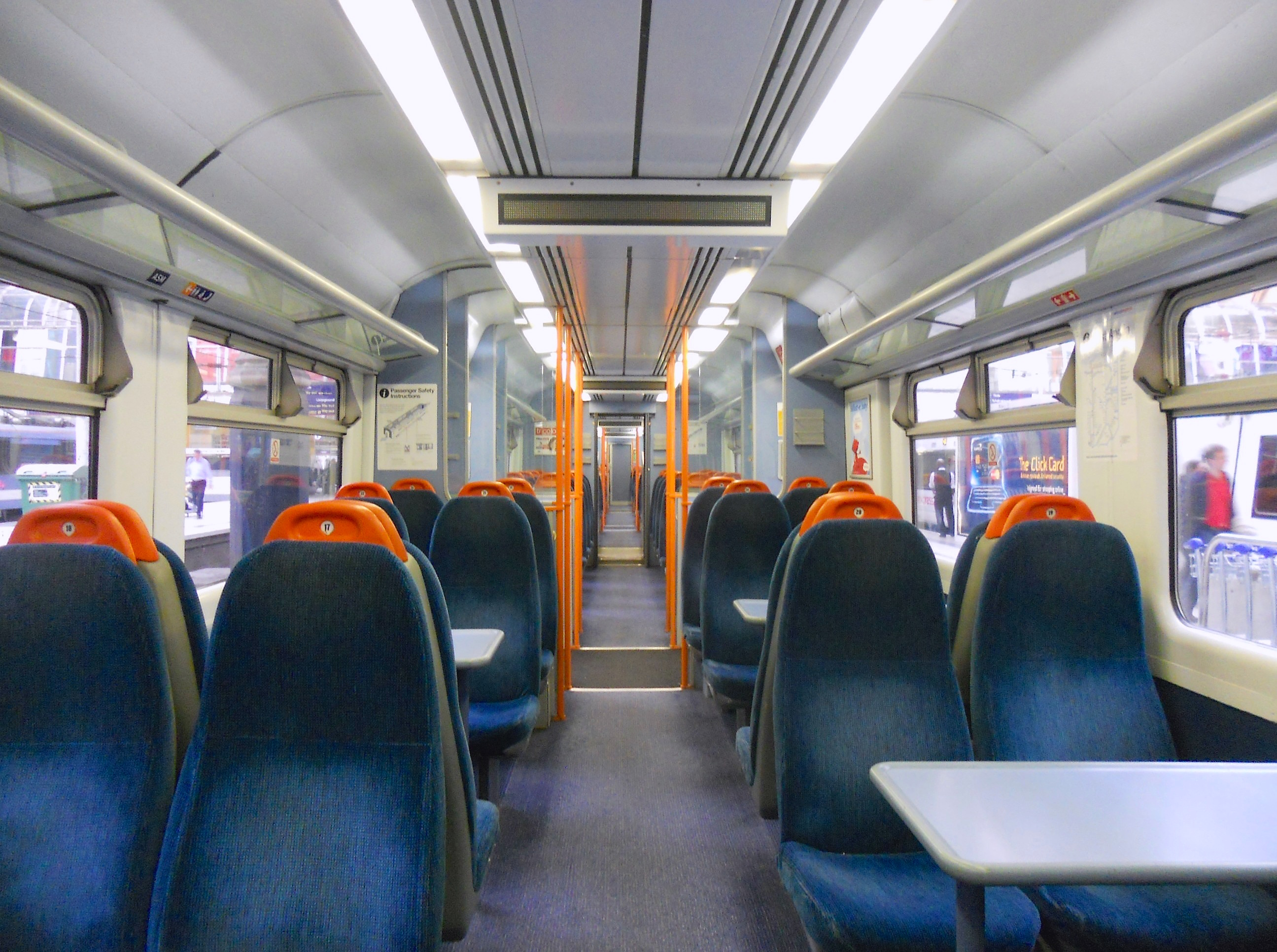 The interior of the refurbished Standard Class accommodation aboard a Stansted Express Class 317/7